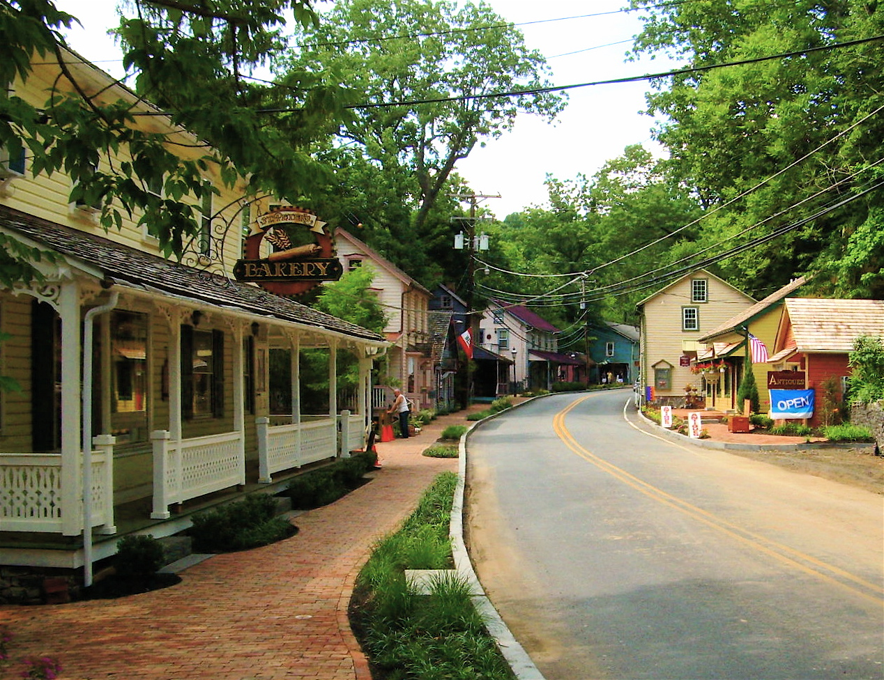 WillJay, shot by me, Saint Peters Village, Warwick Township, Pennsylvania.